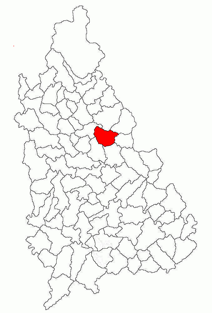 Locator map of Ocnița Commune in Dâmbovița County, Romania